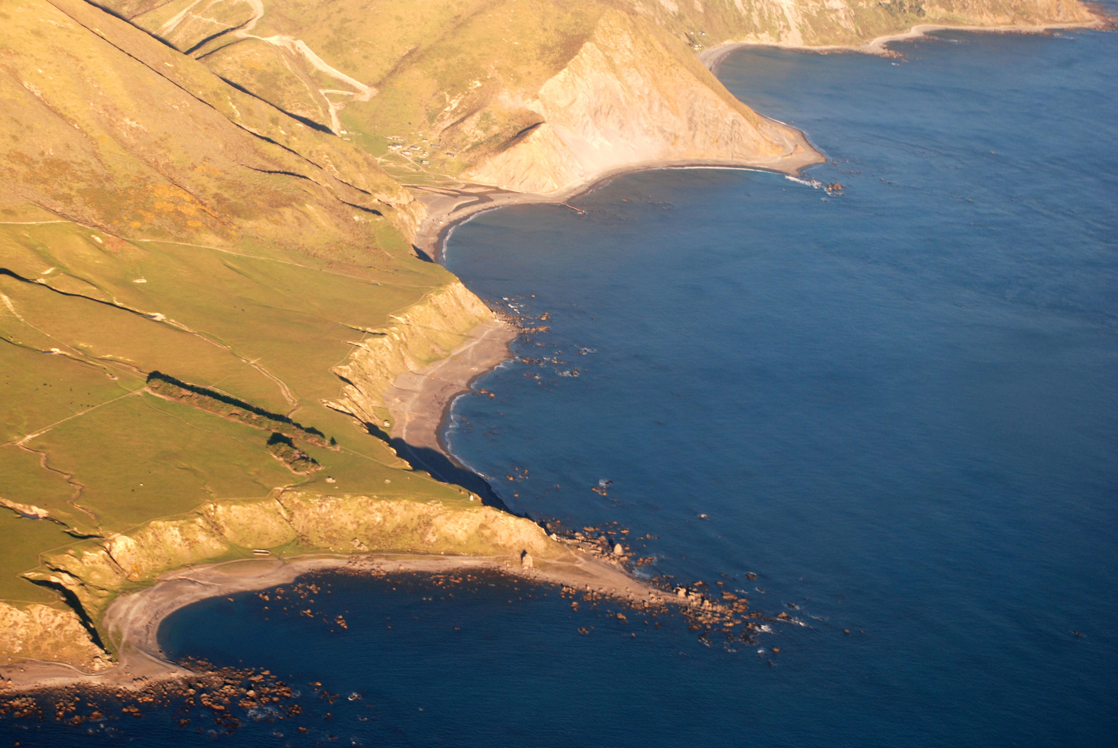 Tongue Point, Wellington south coast, on the Cook Strait, New Zealand